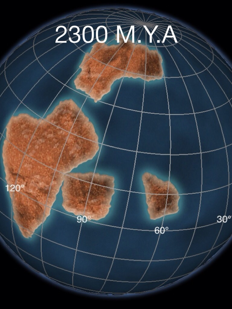 image showing kenorland shortly after its breakup